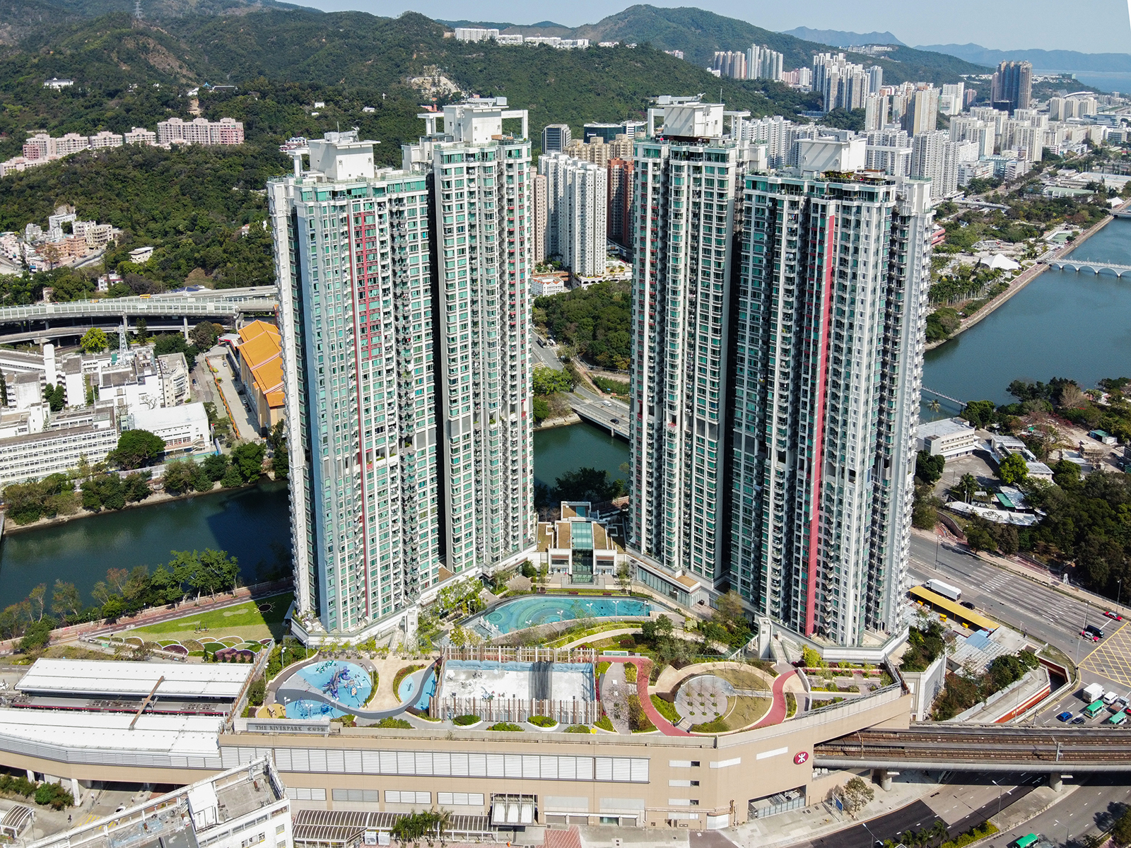 The Riverpark